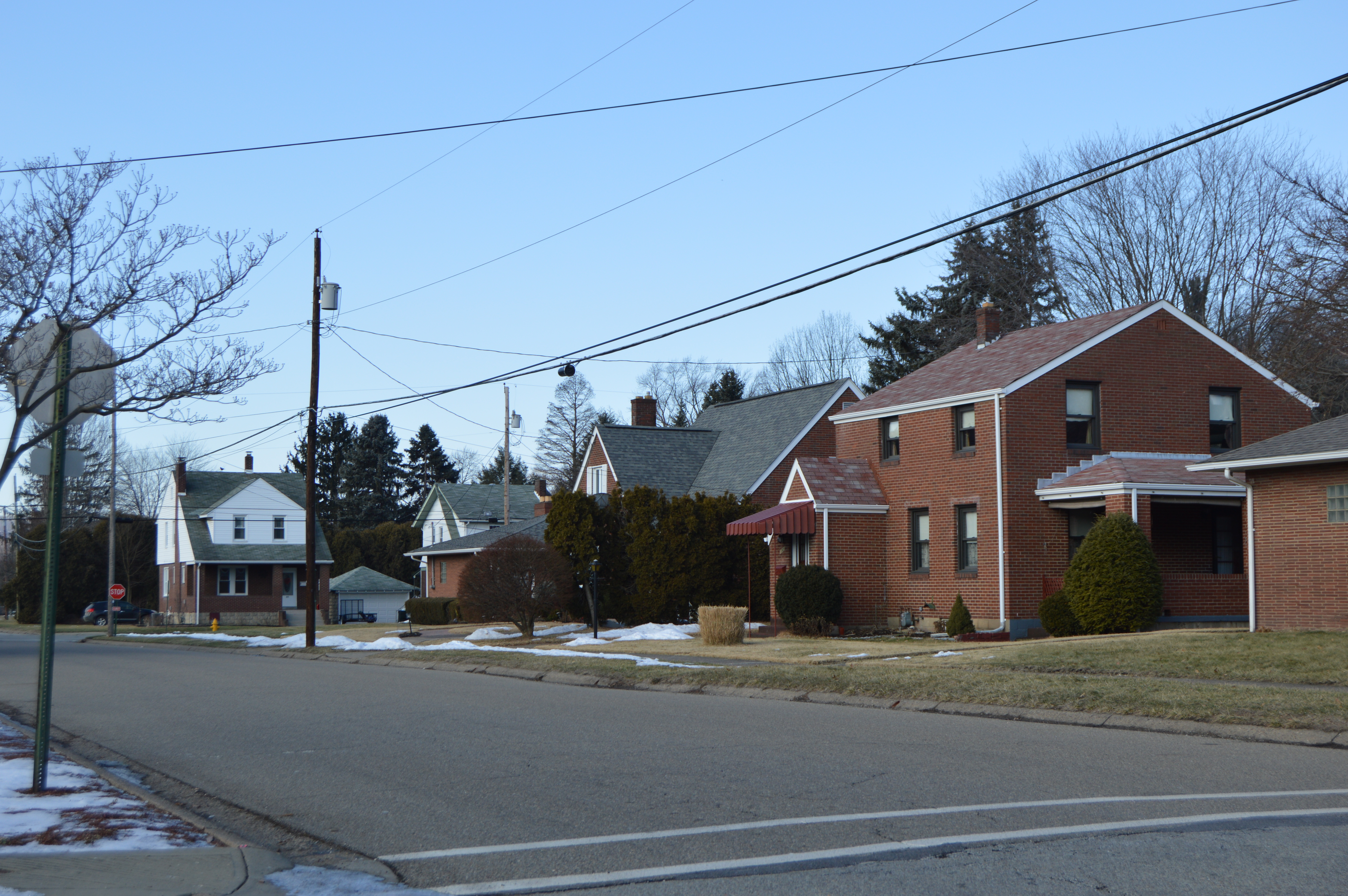 Houses on the northern side of Spruce Street looking west from the Coolidge Avenue intersection in Cheswick, Pennsylvania, United States.